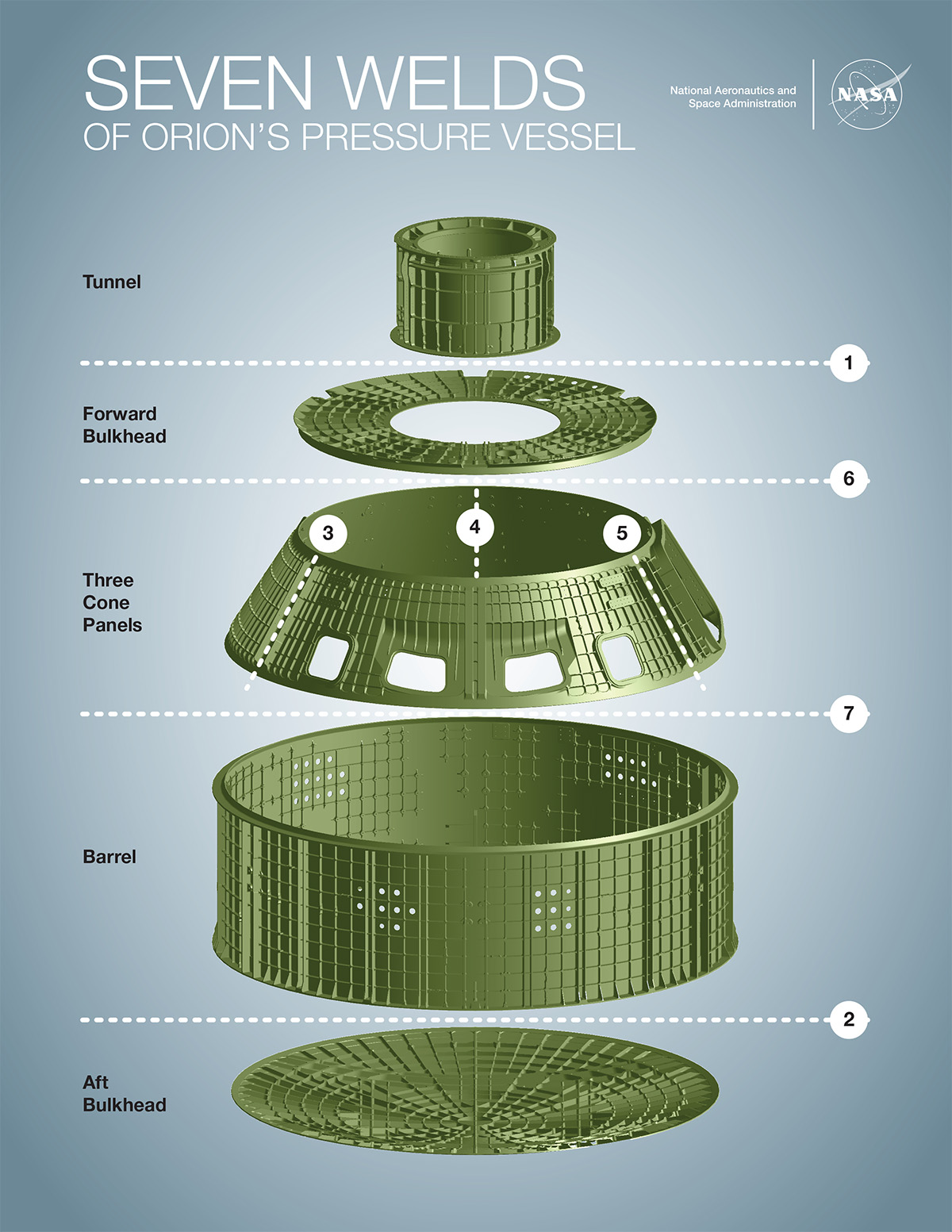 NASA EM-1 Mission craft welding sequence